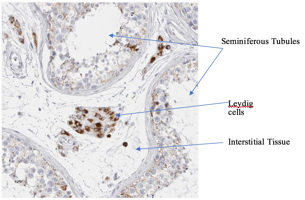 Immunohistological Stain image for FAM71F2 in the testis